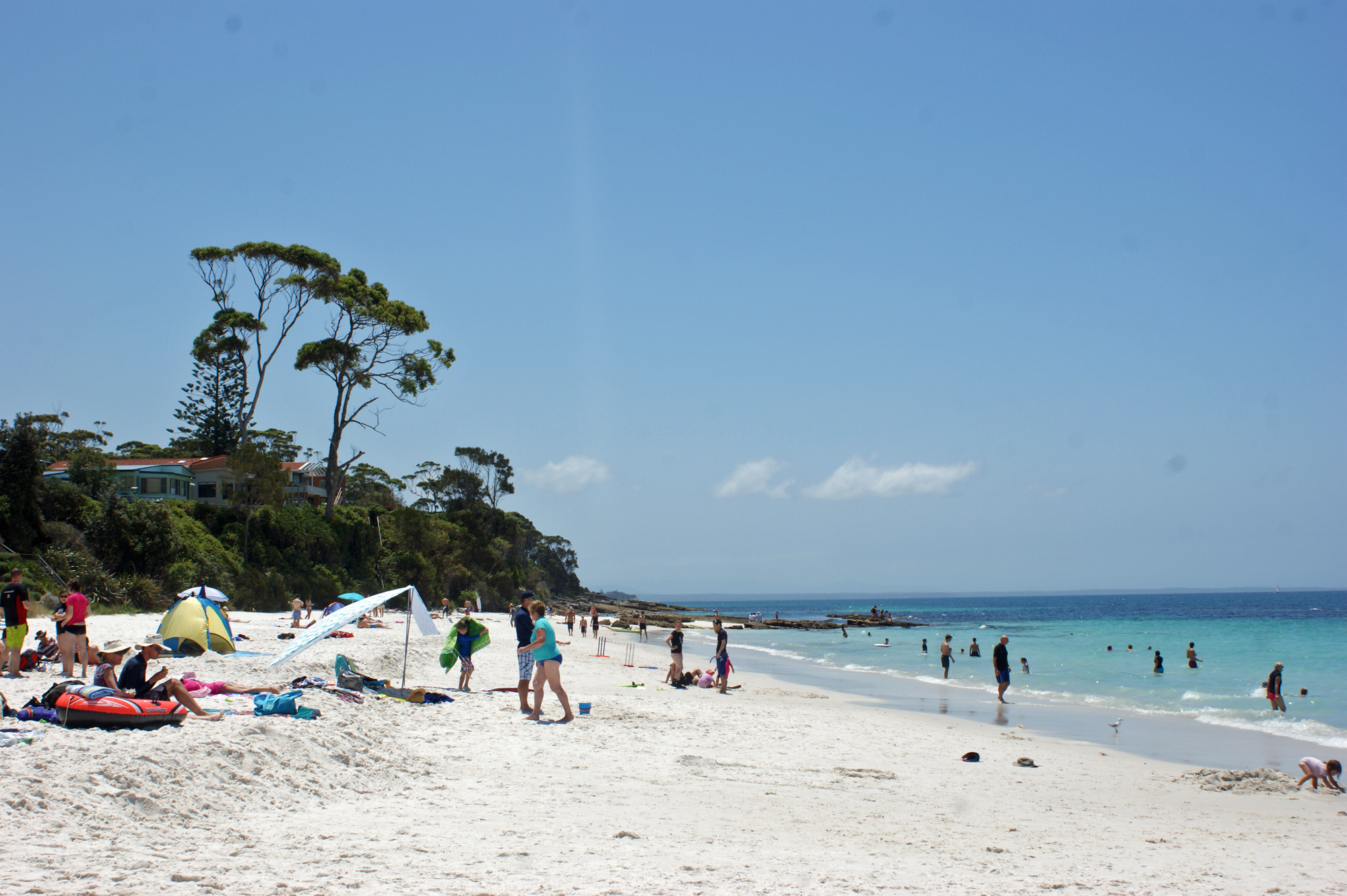 Hyams Beach, Jervis Bay, NSW, Australia – looking North